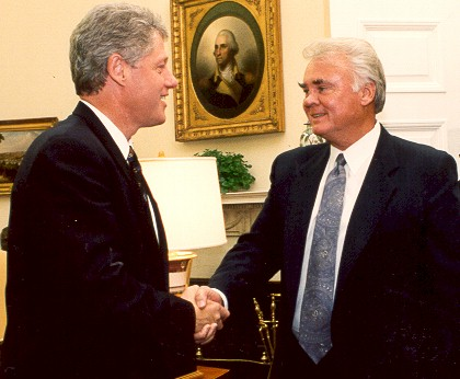 President Bill Clinton and Congressman Bill Young